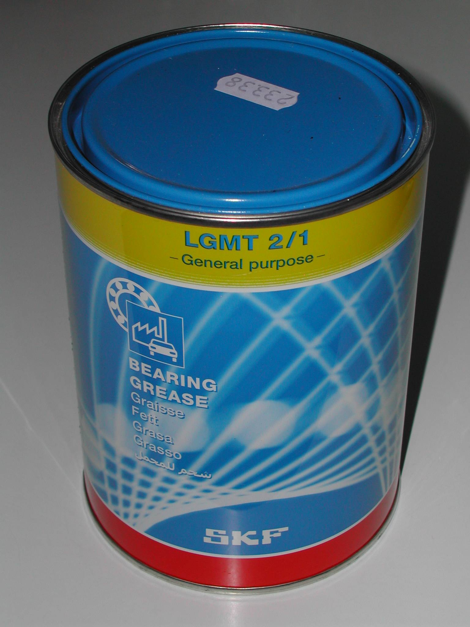 SKF multipurpose lubricant grease for bearing